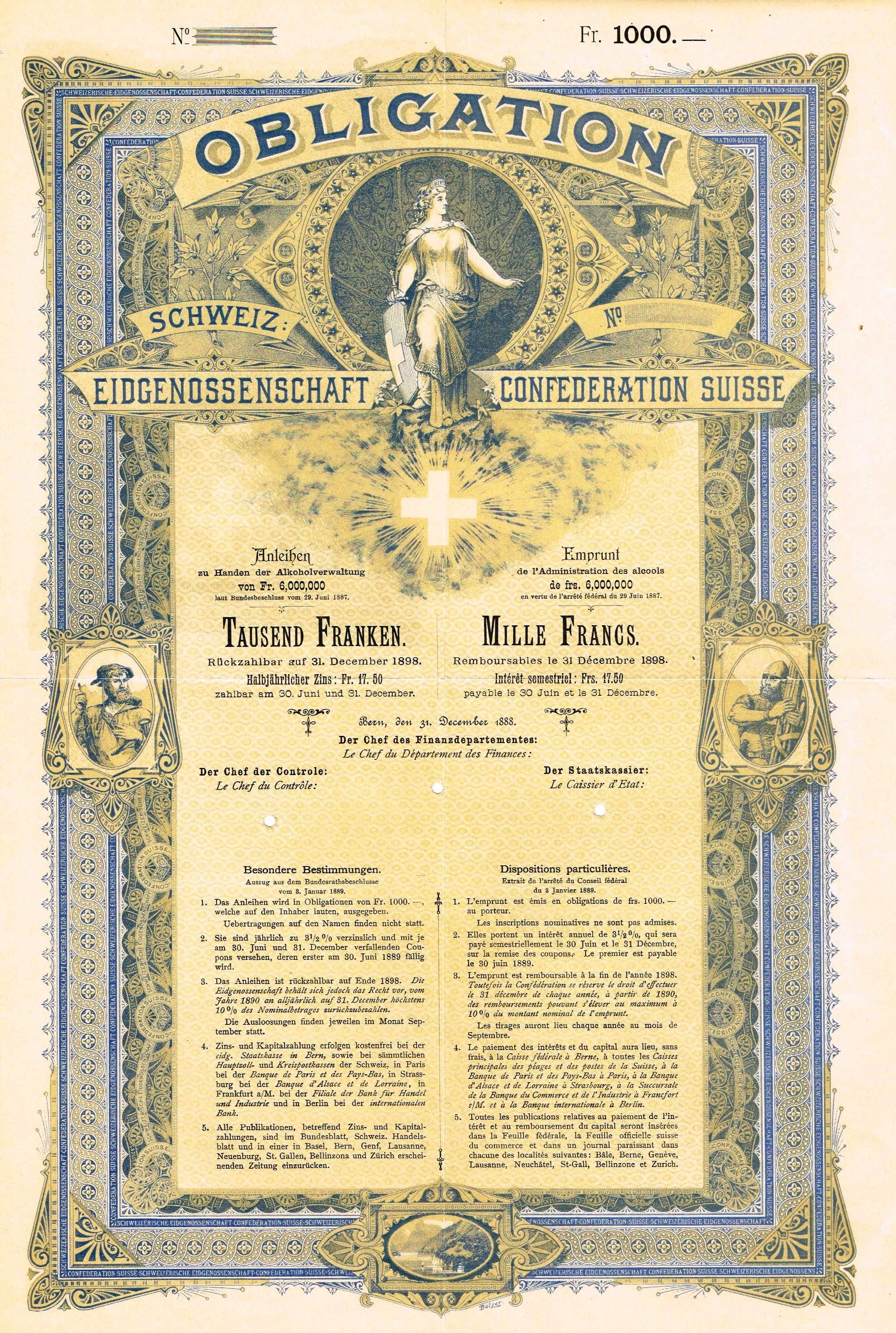 Bond of the Confederation Suisse, issued 31. December 1888